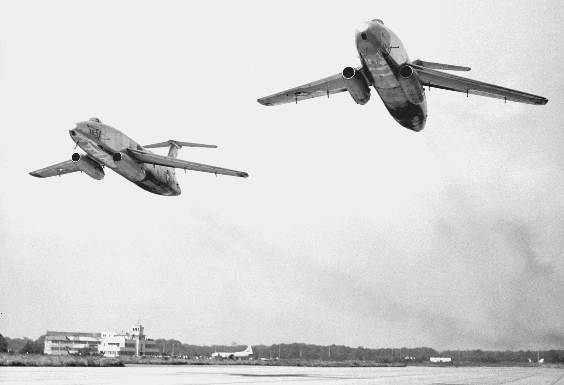 A pair of Martin XB-51s